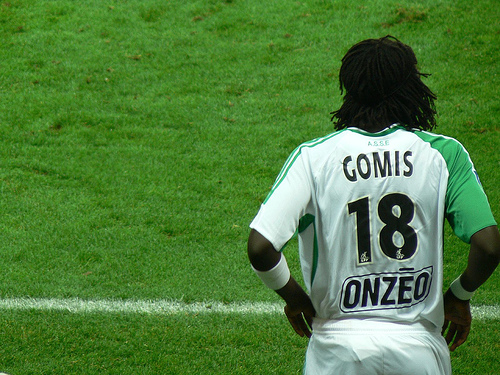 Photo of AS Saint-Etienne player Bafetimbi Gomis